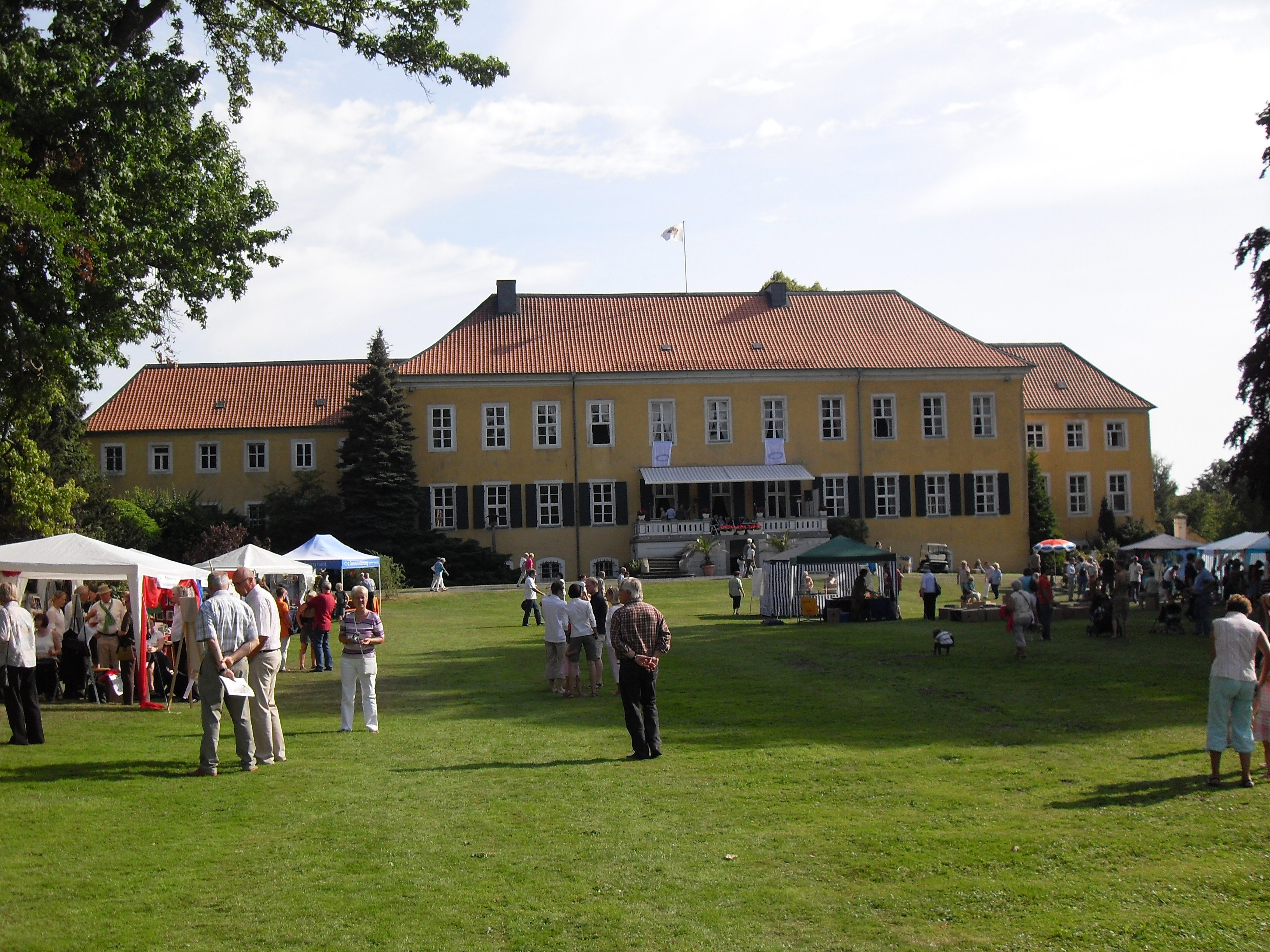 The park in Destedt in Germany